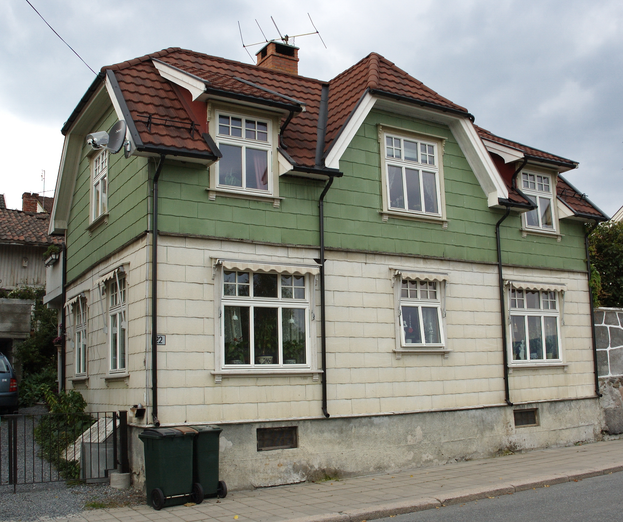 House with Eternit siding, both natural grey and with green colour added when made. In Storgata, Vestfossen, Norway.